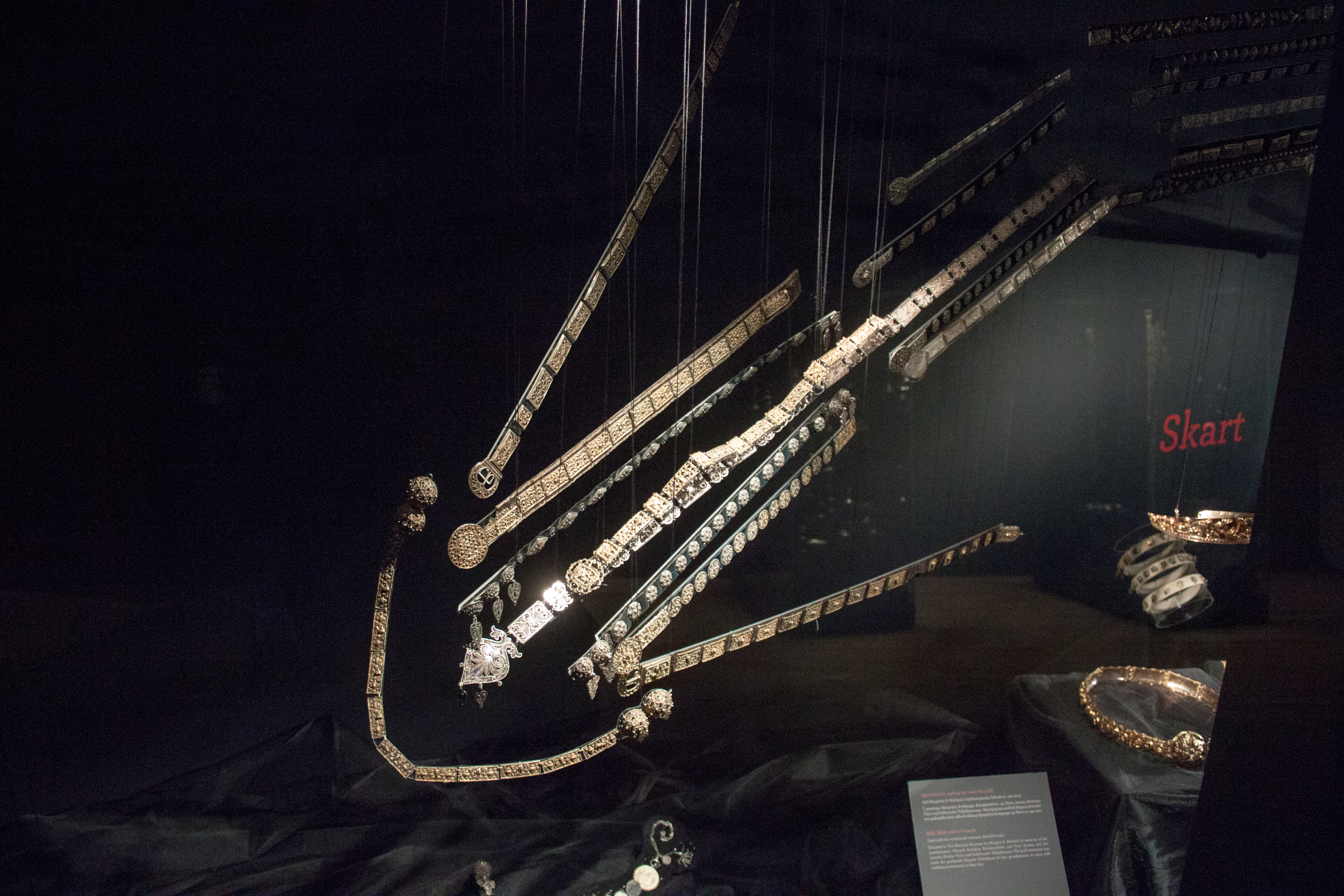 Nickel-silver objects